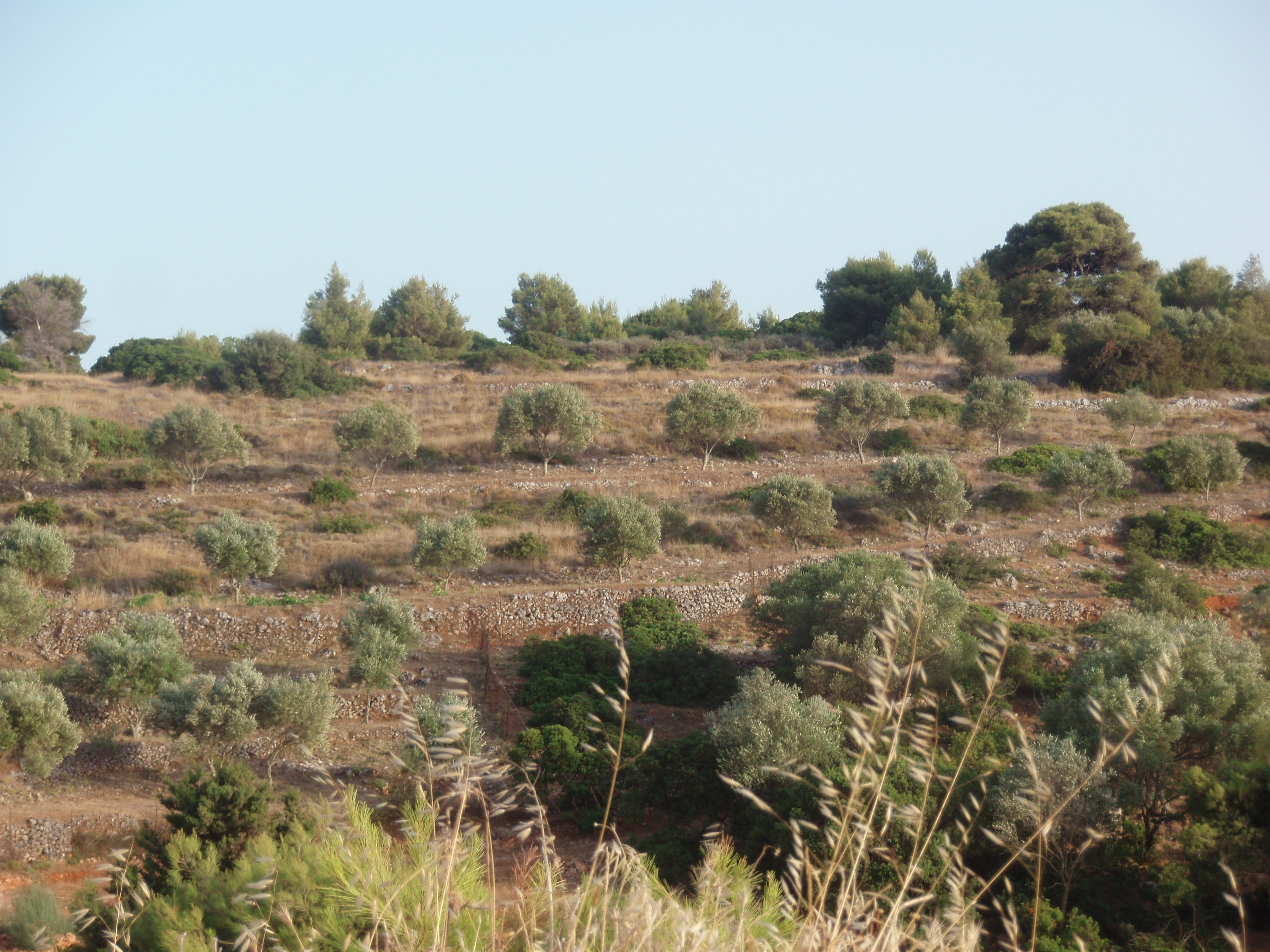 Olive trees above the village of Keri, Laganas municipality, Zakynthos, Greece.